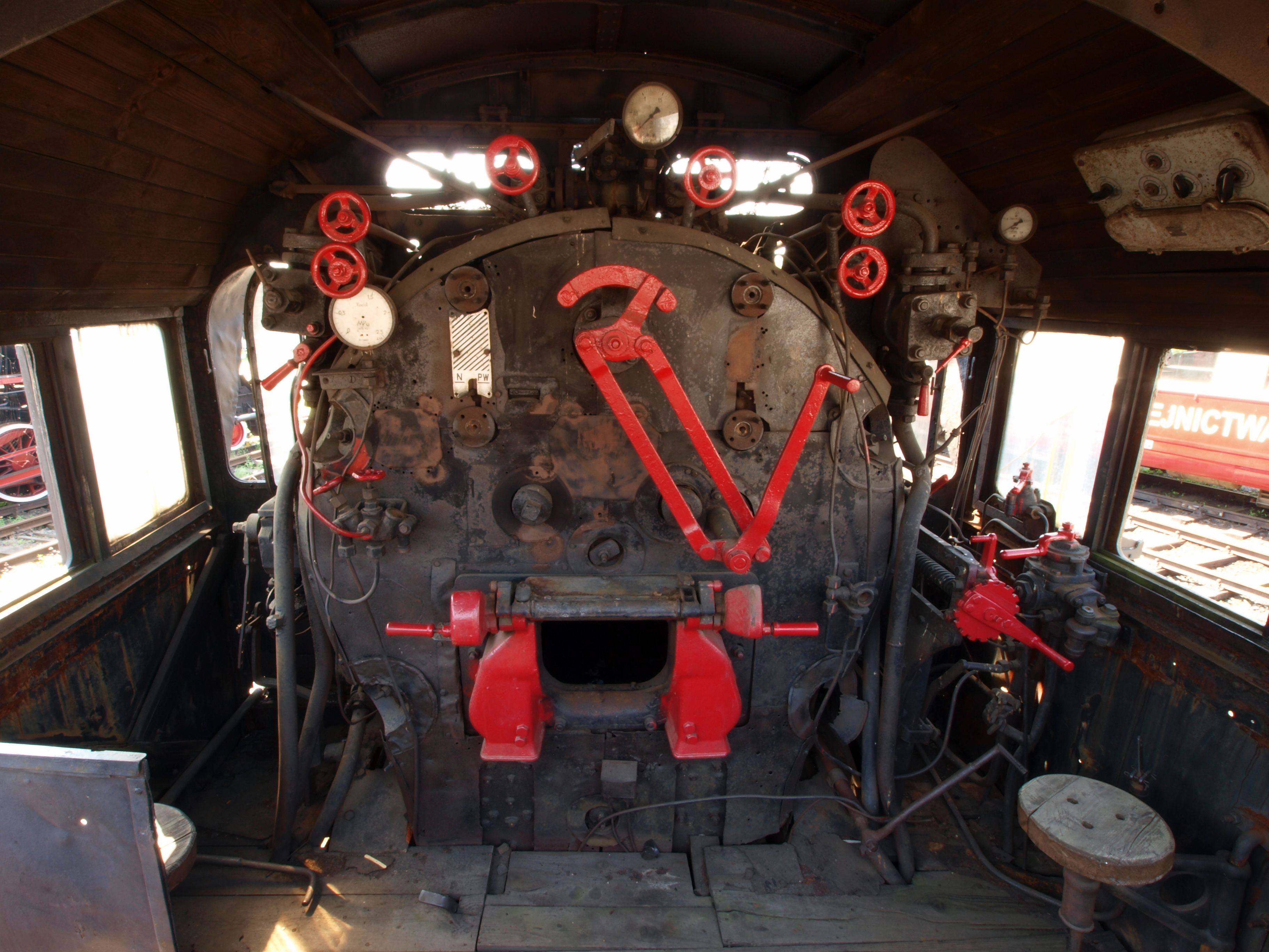 Inside of PKP Ok1-325 at the Museum of Industry and Railway in Lower Silesia.